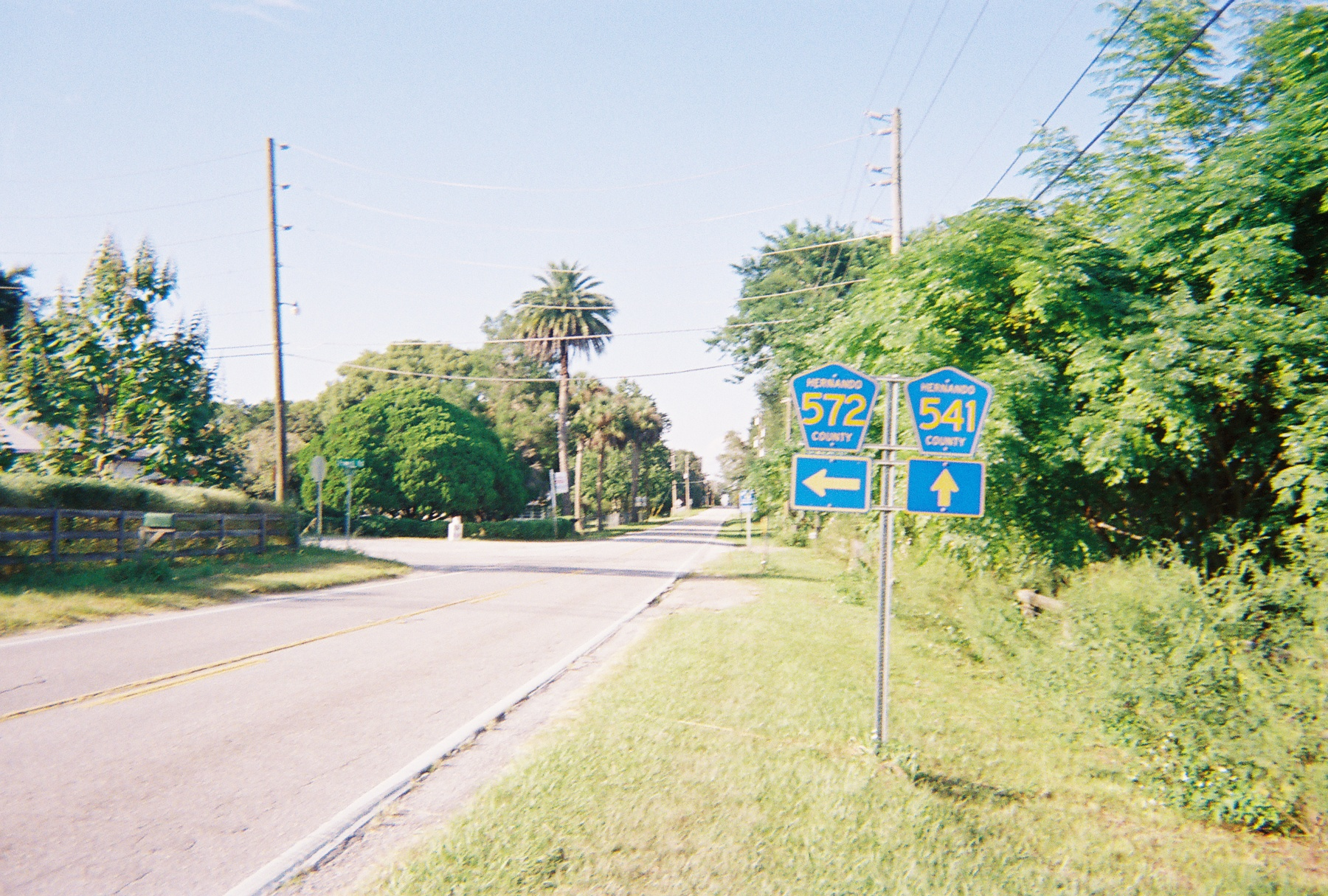 North on Hernando County Road 541(Spring Lake Highway) approaching Hernando County Road 572(Powell Road) in Spring Lake, Florida